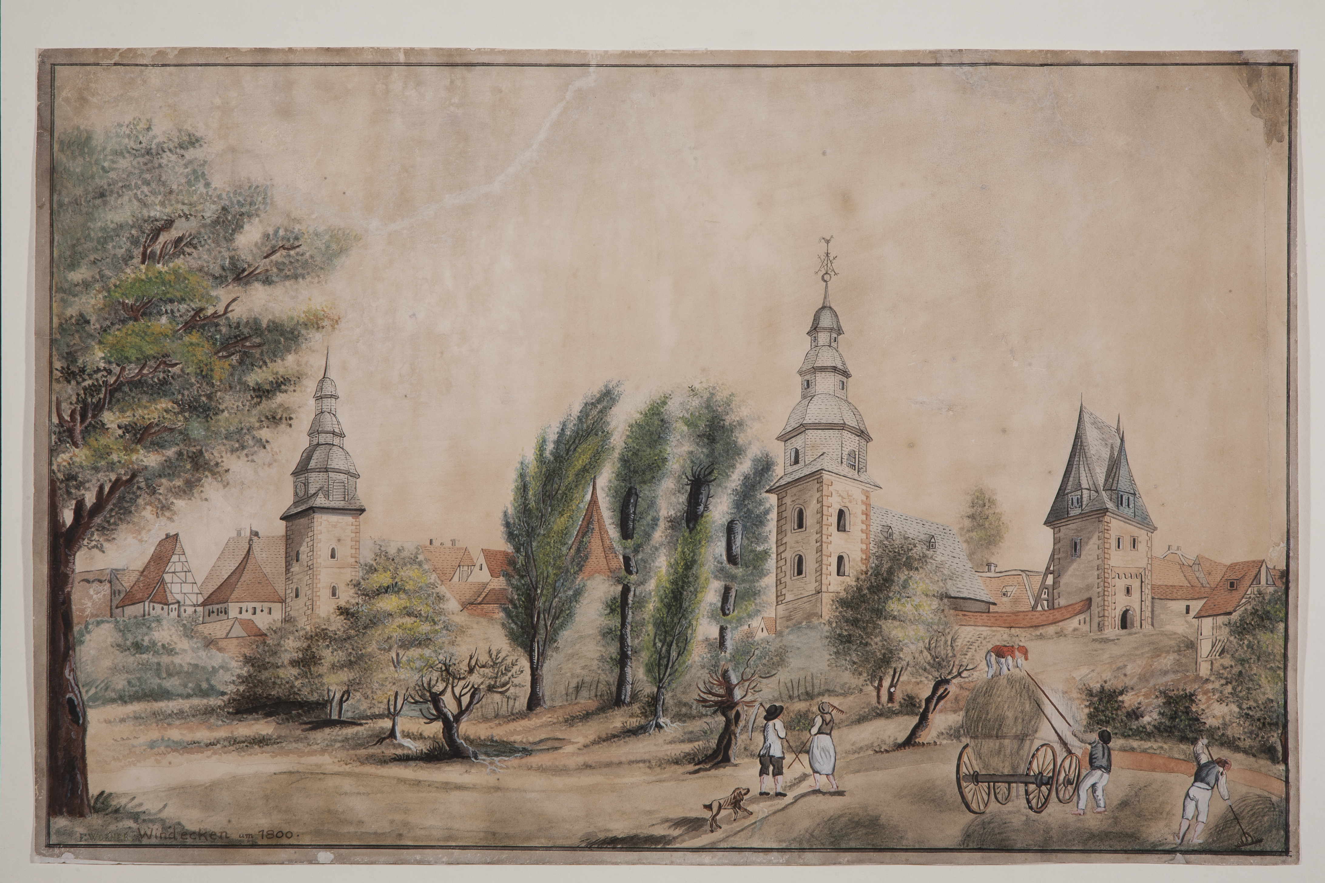 left to right: reformed church, Lutheran church, Kilianstädter gate in Windecken (today: part of Nidderau)